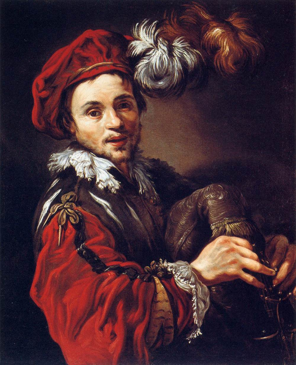 Depicted person: François Langlois (French engraver and art dealer, friend of the painter)